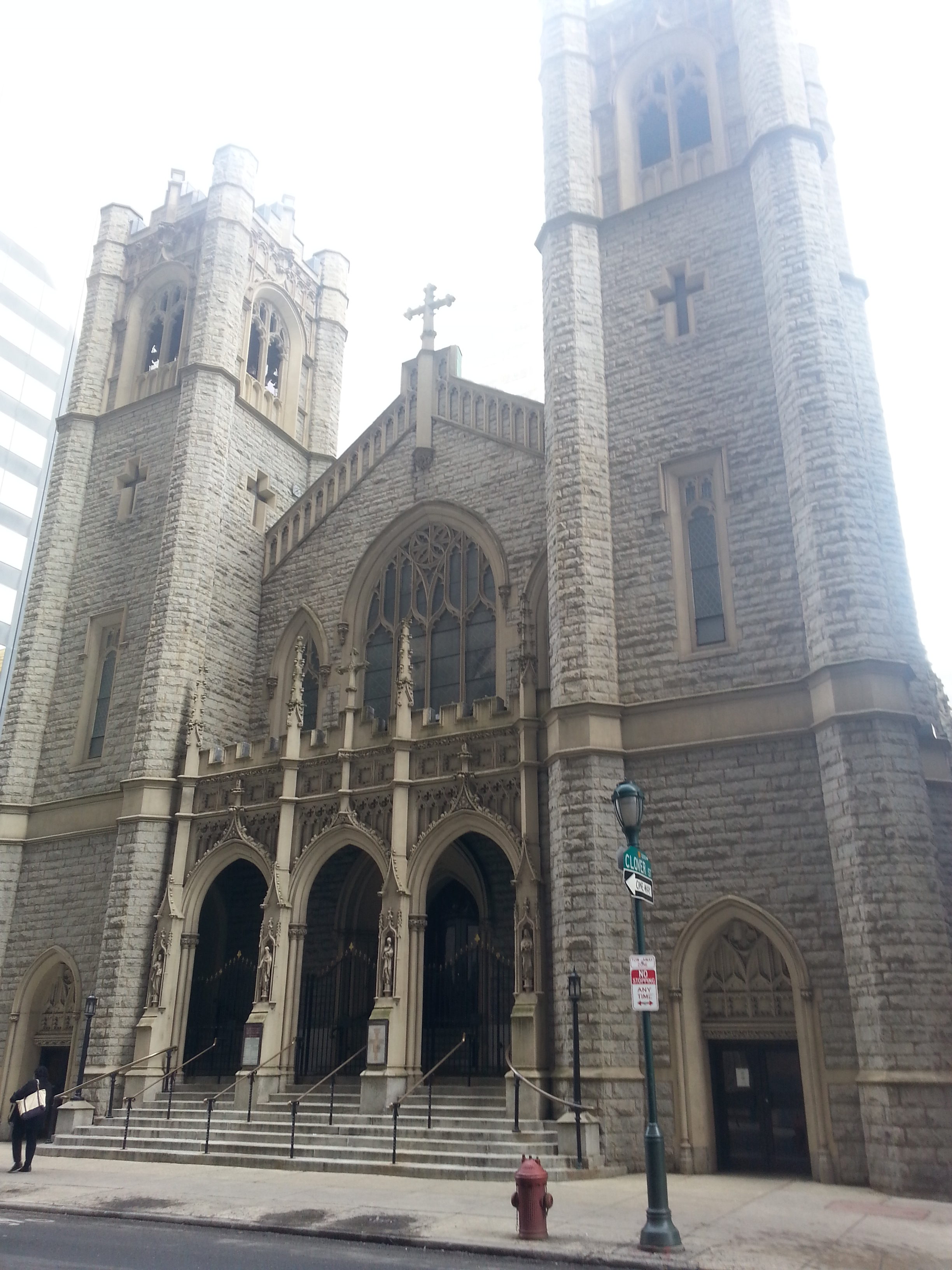 St. John the Evangelist Catholic Church, Philadelphia, Pennsylvania